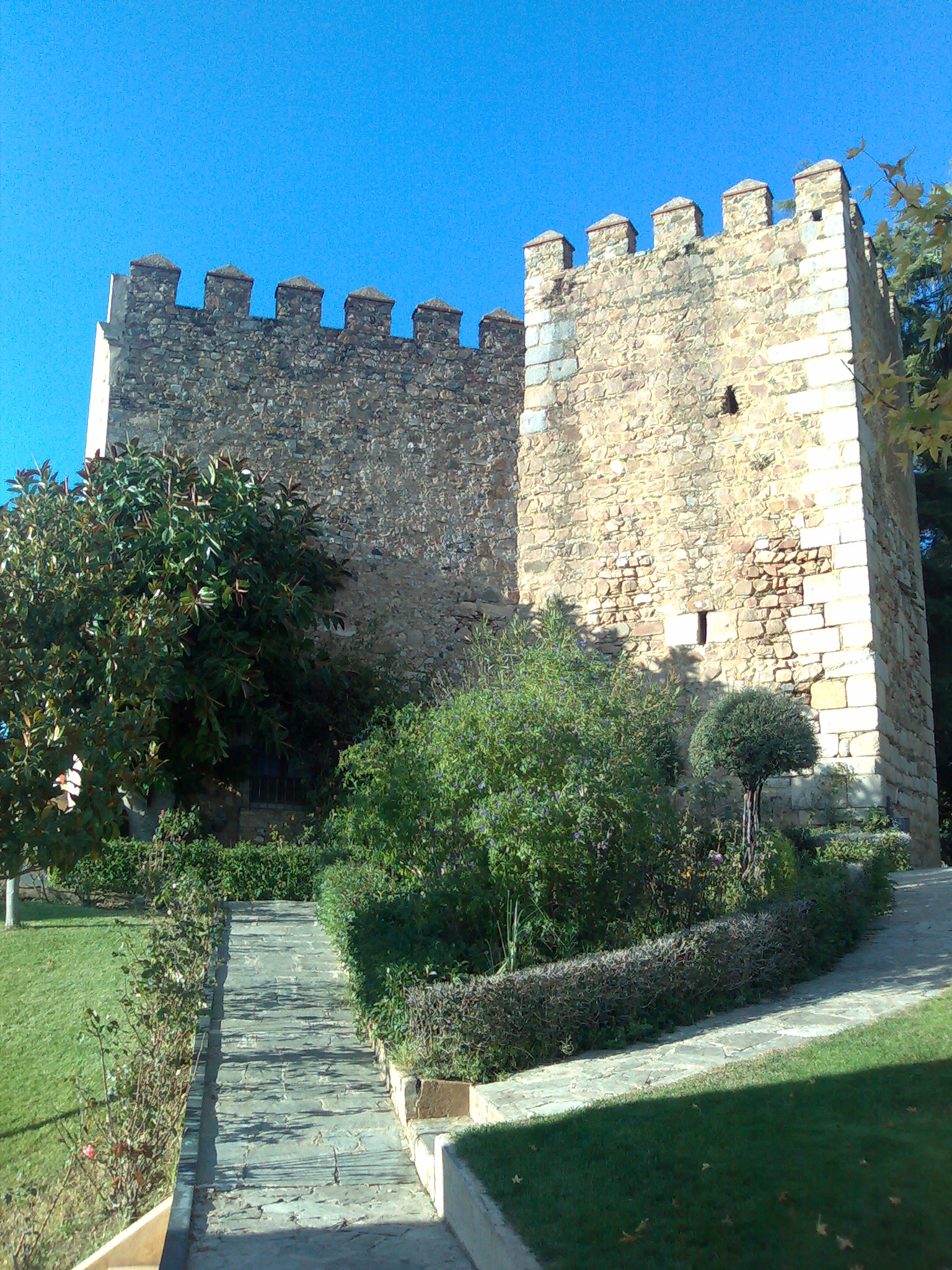 Jerez de los Caballeros